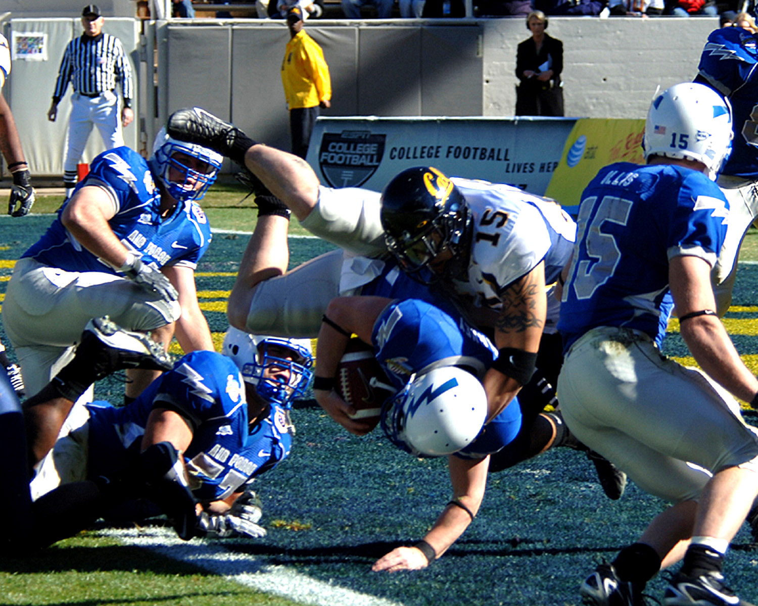 Air Force Academy quarterback Shaun Carney tumbles into the end zone for a touchdown in the first quarter of the Bell Helicopter Armed Forces Bowl Dec 31 in Fort Worth, Texas. The University of California Golden Bears rallied late to beat the Falcons 42-36.